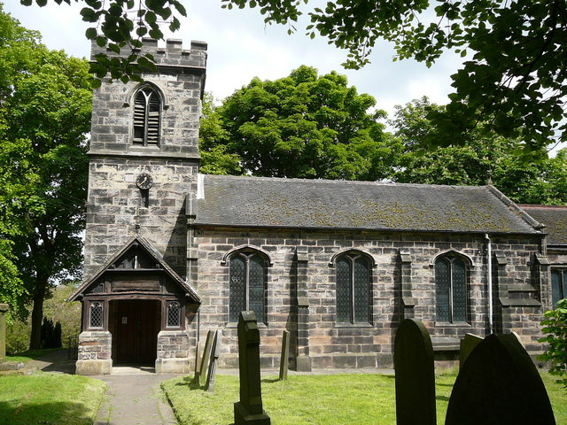 St Chad's parish church, Bagnall, Staffordshire, seen from the south